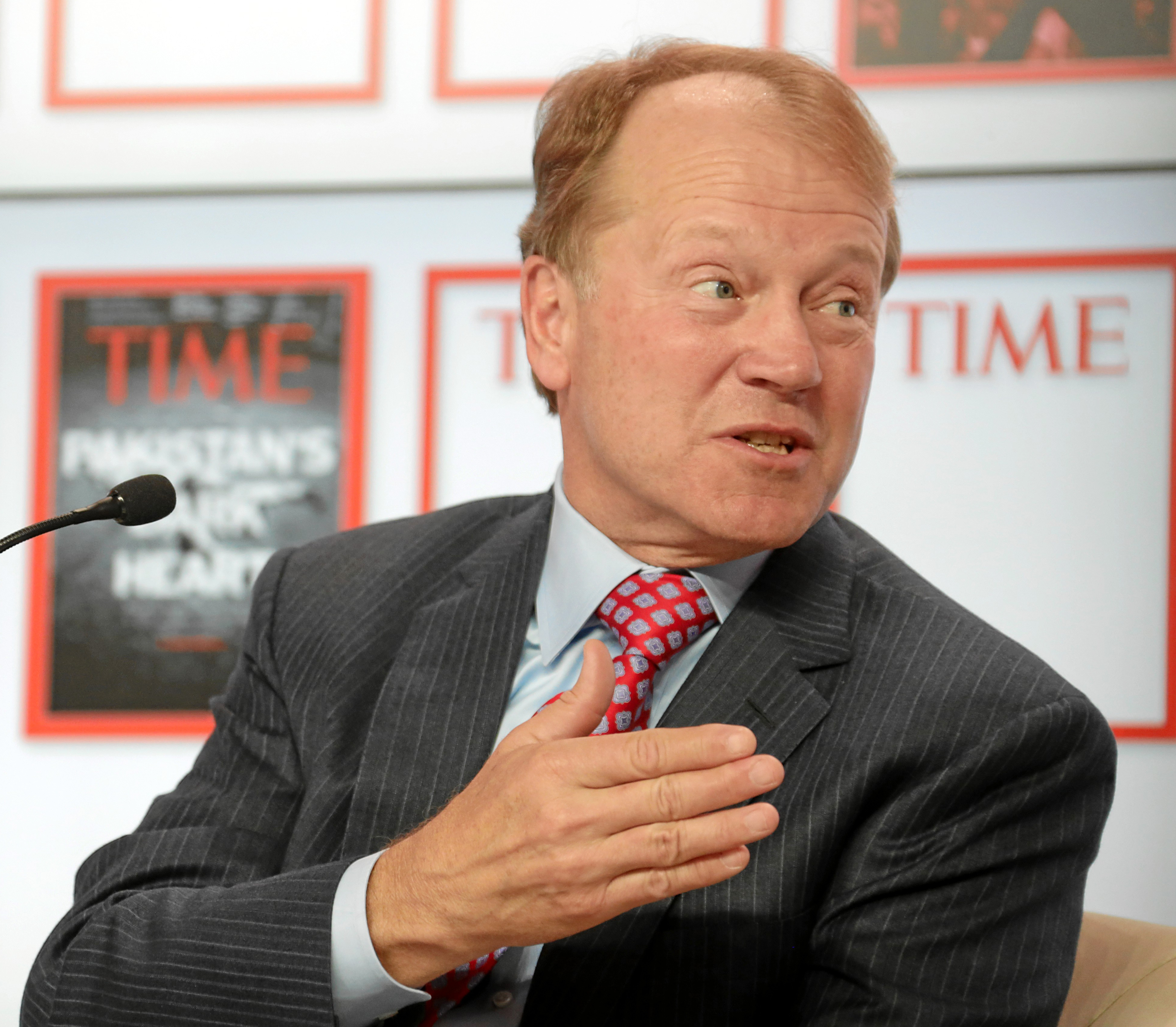 DAVOS/SWITZERLAND, 23JAN13 - John T. Chambers, Chairman and Chief Executive Officer, Cisco, USA delivers a speech during the televised session 'Leading through Adversity - Improving Decision-Making' at the Annual Meeting 2013 of the World Economic Forum in Davos, Switzerland, January 23, 2013.. . Copyright by World Economic Forum. . Remy Steinegger